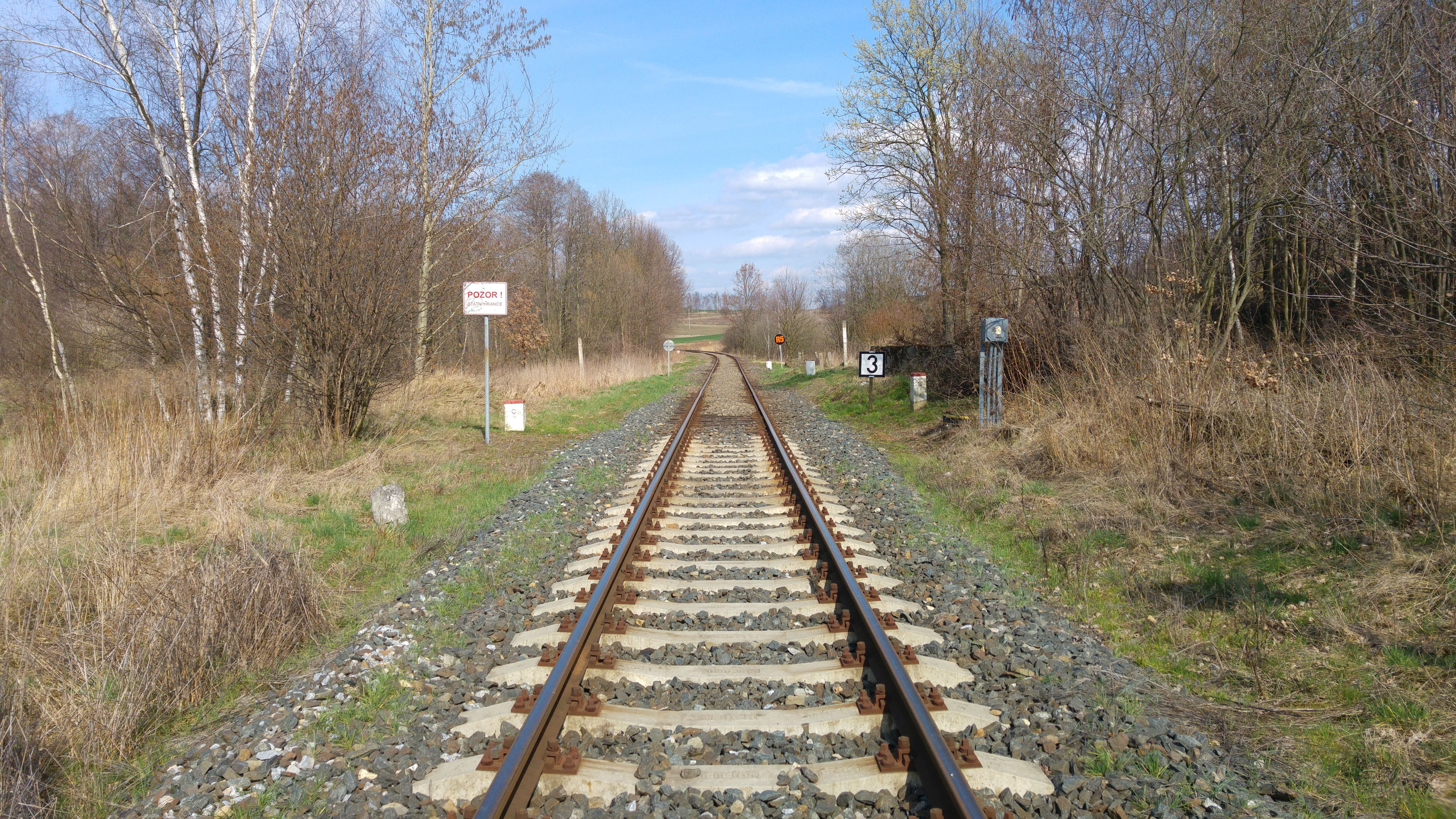 Border crossing of railway line Liberec – Zawidów